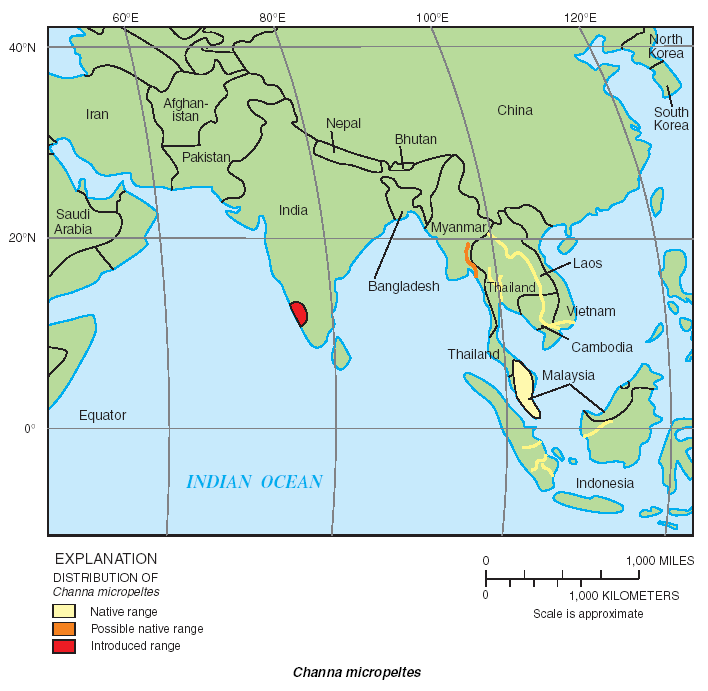 Native and introduced distribution of Channa micropeltes.